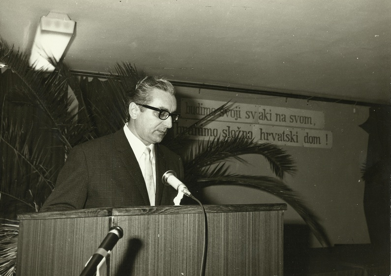 Franjo Tuđman in 1971